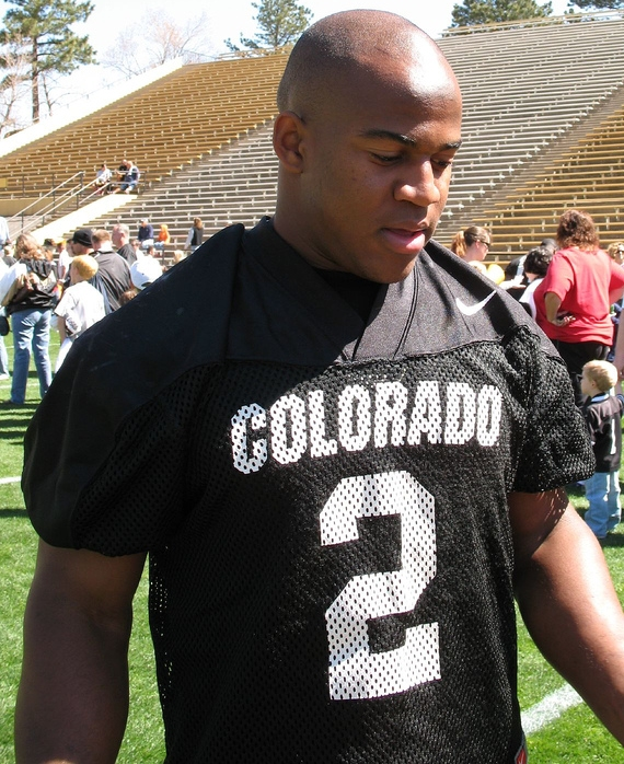 Hugh Charles of the Colorado Buffaloes football team.